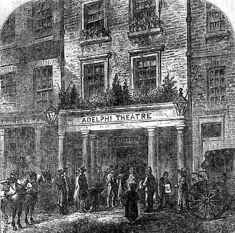 Adelphi Theatre, Dublin, 1829-1844, precursor to Queen's Theatre (1844-1907) which was built on the same site. Ching Lau Lauro appeared here in 1837.